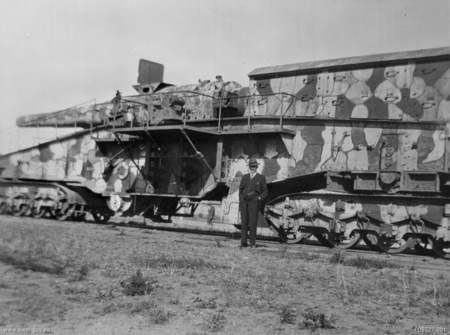 A camouflaged 28 cm German railway gun reputedly known to its German crew as Bruno. The barrel was originally designed as a naval gun but was converted in 1917 for use as a railway gun. It was built by Fr Krupp of Essen and weighed 188 tonnes. The weight of a projectile was 302 kilograms. It was captured by Australian troops from 31st Battalion on 8 August 1918 at Harbonnieres near Amiens, France and was generally known thereafter as the Amiens Gun. After the First World War, the railway gun was shipped to Australia and it was stored on a siding at the Canberra railway station. During the Second World War the barrel, bogies and roof section were removed and the carriage was taken to the Proof and Experimental Establishment at Port Wakefield, SA, as a test bed for large calibre naval guns. The bogies were taken to Bandiana military base near Albury, NSW. The carriage and bogies were scrapped and disposed of during the 1960s. The barrel and roof section are all that remain, and these are now part of the National Collection held by the Australian War Memorial. The man standing in front of the railway gun, is the father of the donor of this image, Mr Brown senior.